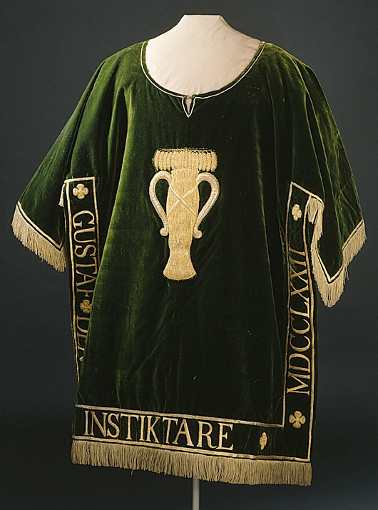 Tabard of the Order of Vasa, in the collection of the Royal Armoury of Sweden